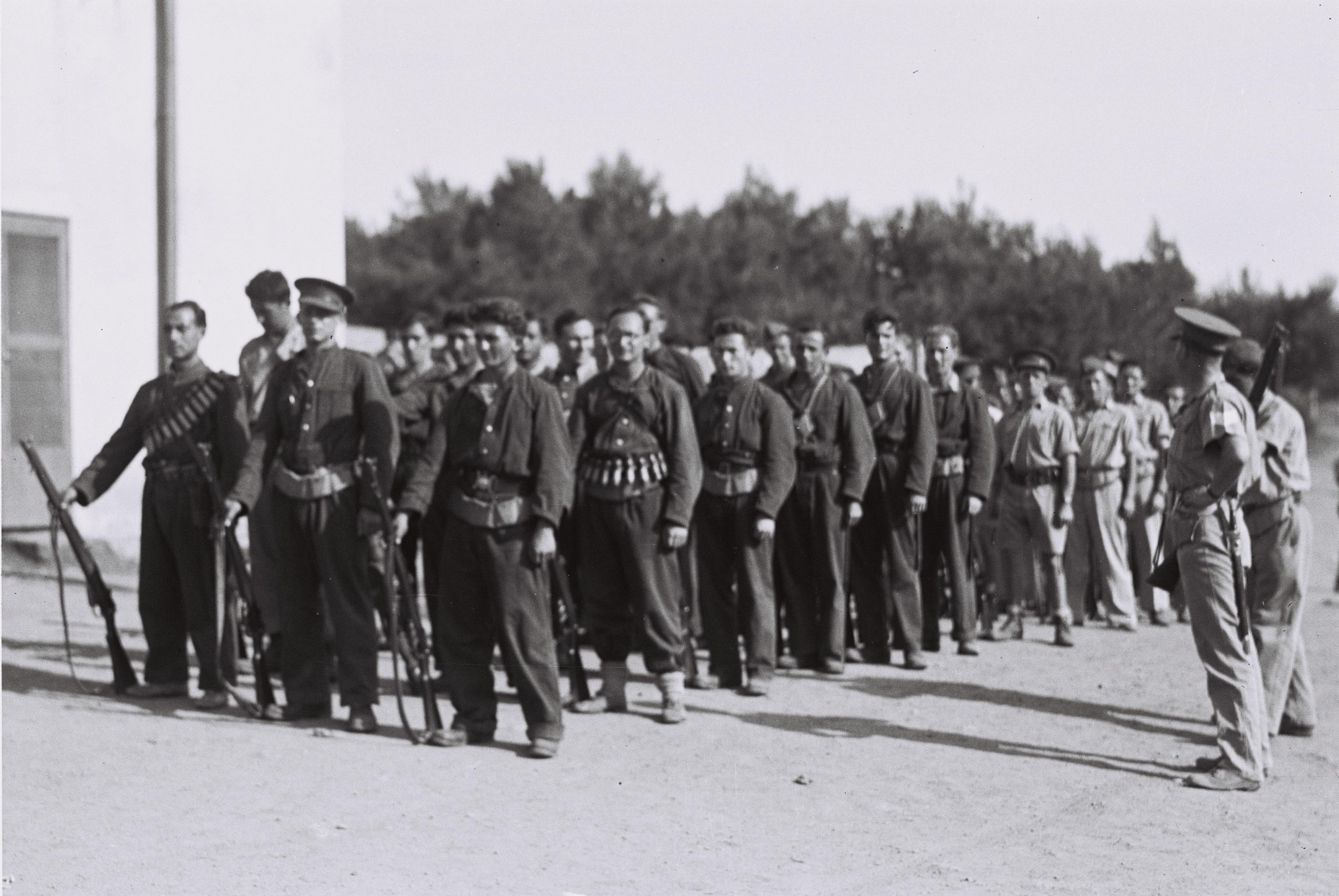 Members of the special night squad training at Kibbutz Ein Harod.